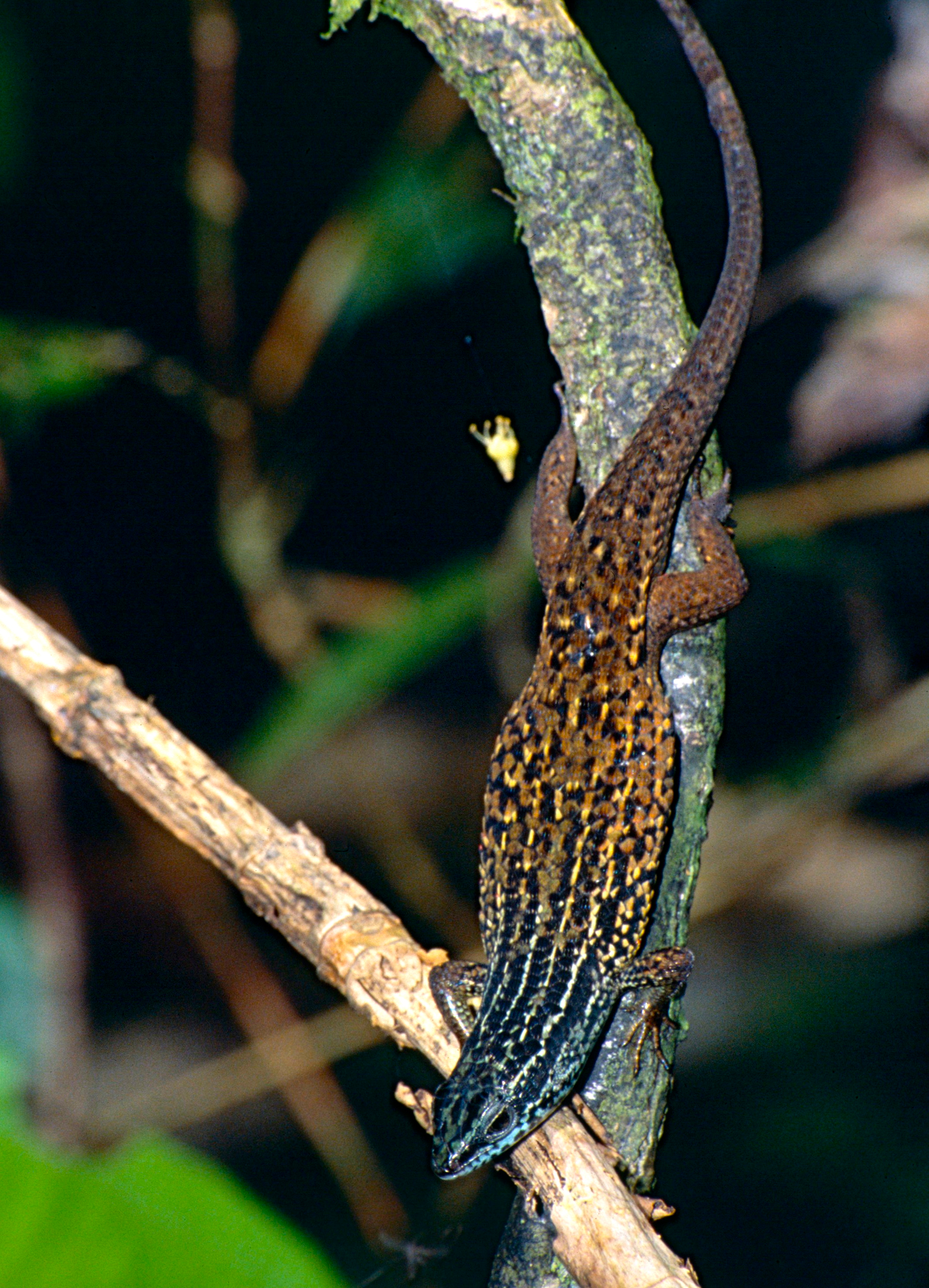 Niah Caves NP, Sarawak, MALAYSIA Scanned slide from 2001